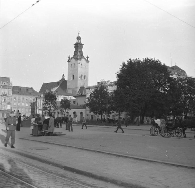 Latin Cathedral; Cathedral square in Lviv